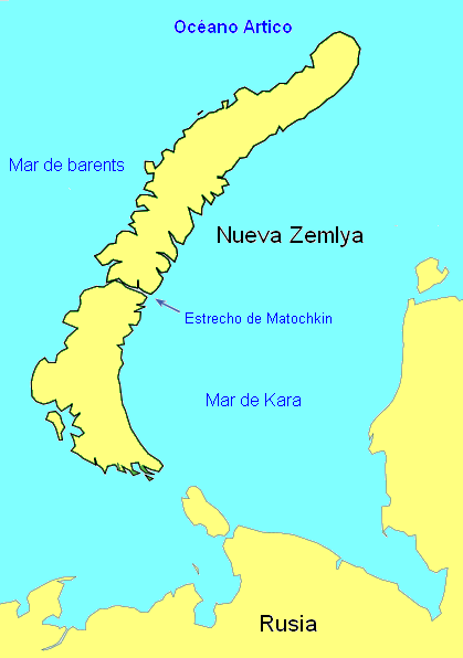 edited over original (NovayaZemlya.svg) Matochkin strait